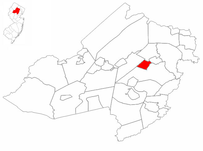 Position of Mountain Lakes (highlighted in red) in Morris County. Morris County's position in New Jersey is in turn highlighted in red.